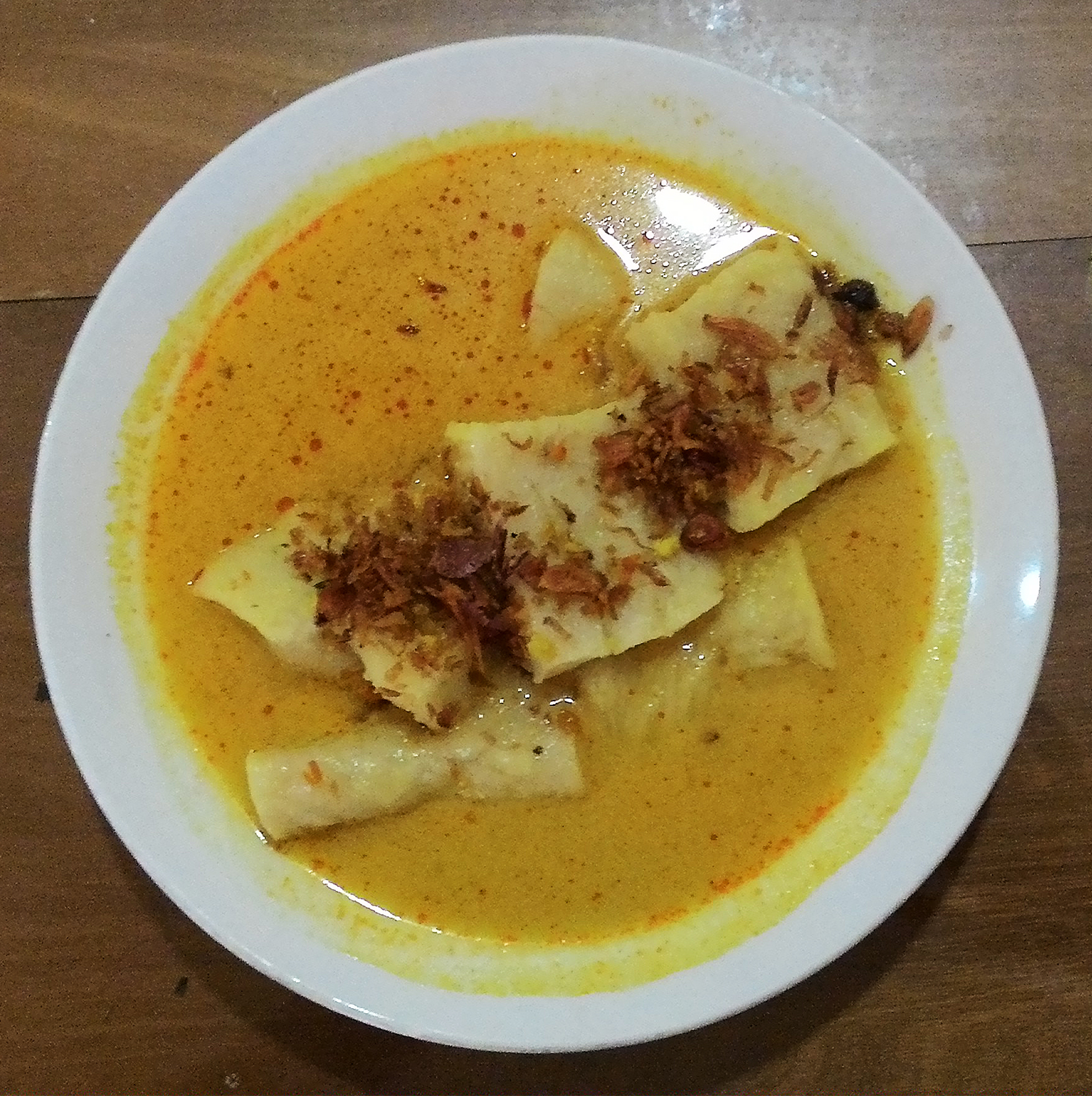 Laksan Palembang, fish cake similar to pempek served in rich coconut milk base soup, and sprinkled with crispy fried shallot. A delicacy of Palembang, South Sumatra, Indonesia.